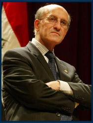 Governor of the Bank of Irak.